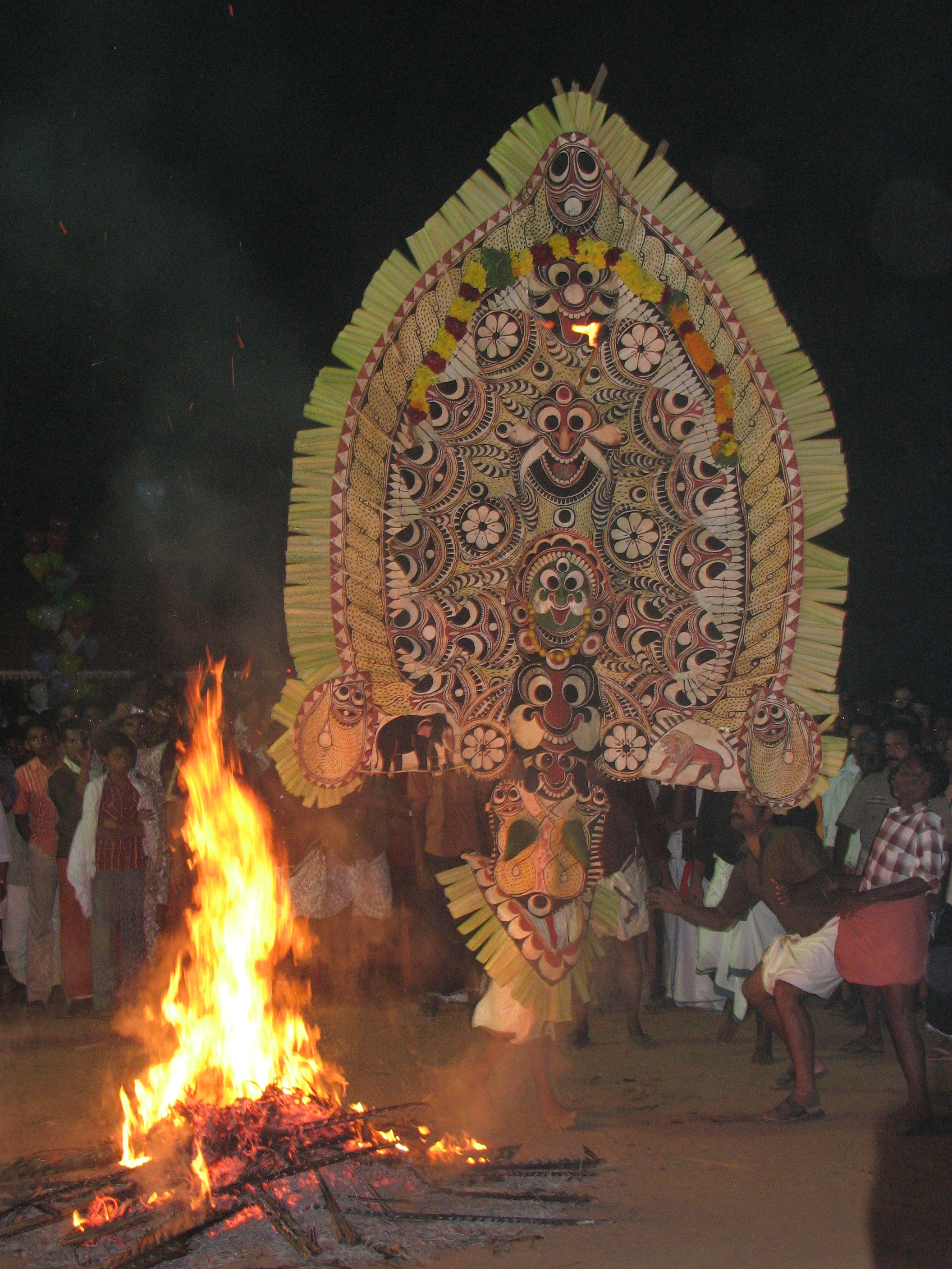 Padayani. Areca palm leaf Bhairavi Performing at Kottangal Devi Temple.